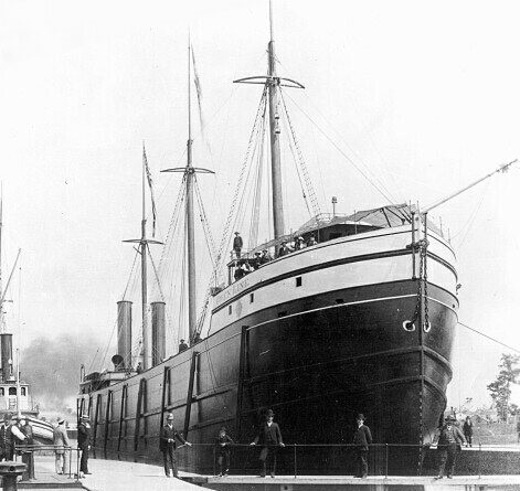 The freighter Ira H. Owen prior to the Mataafa Storm of 1905